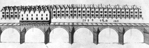 Engraving of Notre-Dame bridge in Paris, by Jacques Androuet du Cerceau (erroneously entitled pont Saint-Michel)